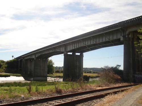 Author: Myself; T.M.; Photo taken on July 5, 2007.